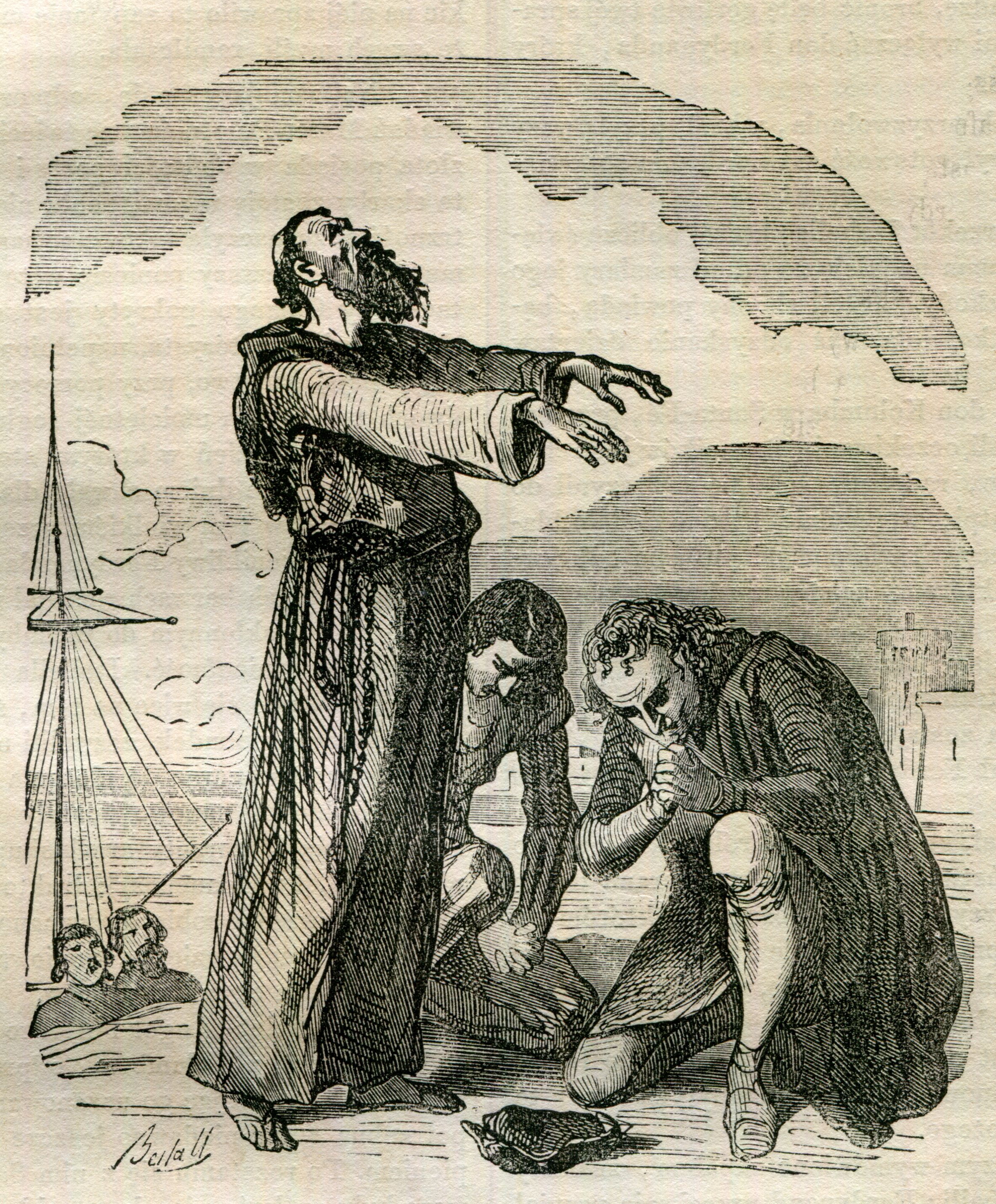 Illustration to the historical novel "Mercedes of Castile" by James Fenimore Cooper (engraving by Bertall)